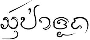 Lanna-Name of District in the North of Thailand